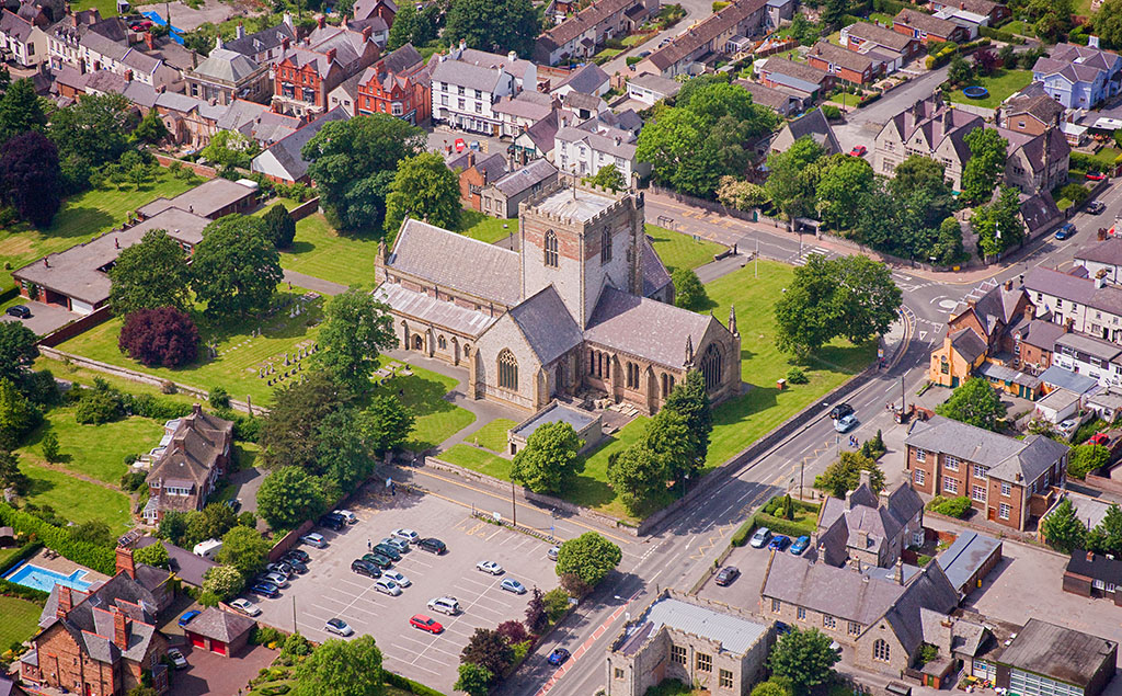 St Asaph Cathedral, Denbighshire / Sir Ddinbych, Cymru / Wales - from the east. Aerial Religious - Cathedrals